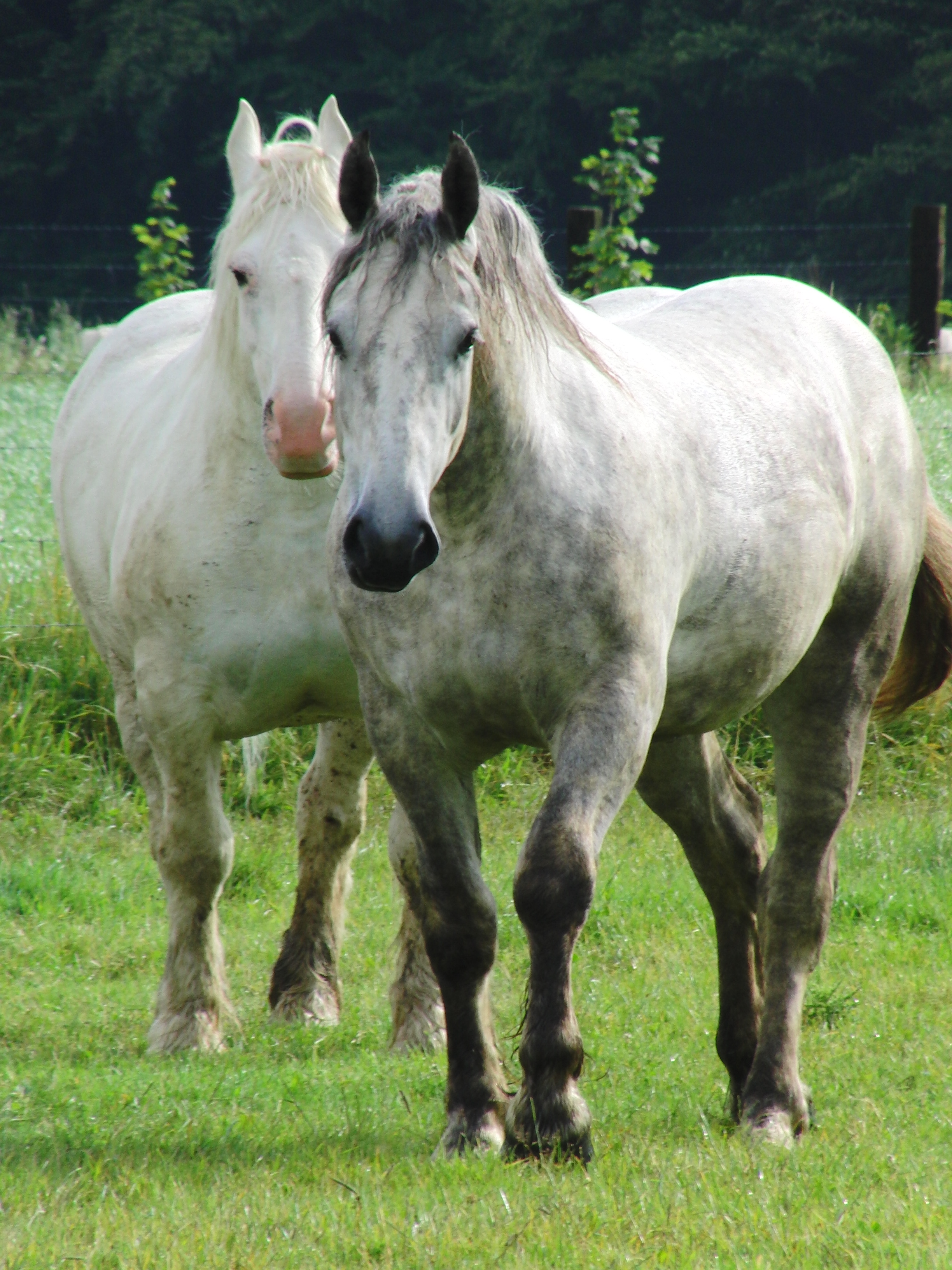 Boulonnais horses, Le Titre, Somme, France